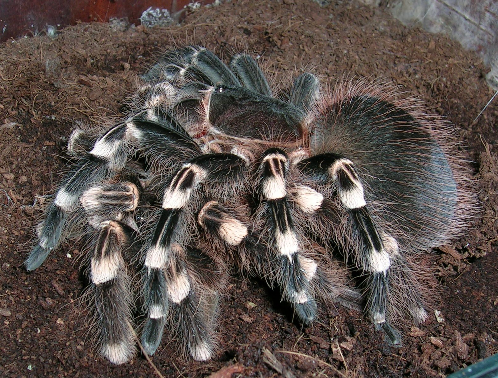 Tarantula Acanthoscurria geniculata. Female eating male as a result of breeding attempt.